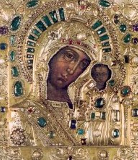 Mother of god of Kazan